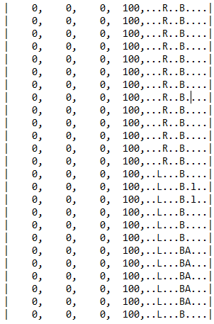 An example of what you might see in a tool-assisted speedrun's input file (on a text editor. The screenshotted file is extracted from a BK2, or Bizhawk input file. This particular TAS's input was made by me ( so I have the rights to it. A TAS's input files' rights are able to be completely held by the TASer, while the video from the encodes is fair use from the games, so I am able to release this input file, along with this snapshot of it, into the public domain. This is the input file to one of my TASes. All input files of my TASes are public domain, released by me. For more information